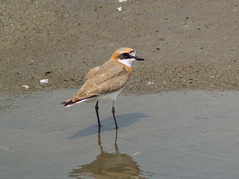 Charadrius mongolus（蒙古沙鴴）, Summer plumage, Yunlin County, Taiwan, 2008.